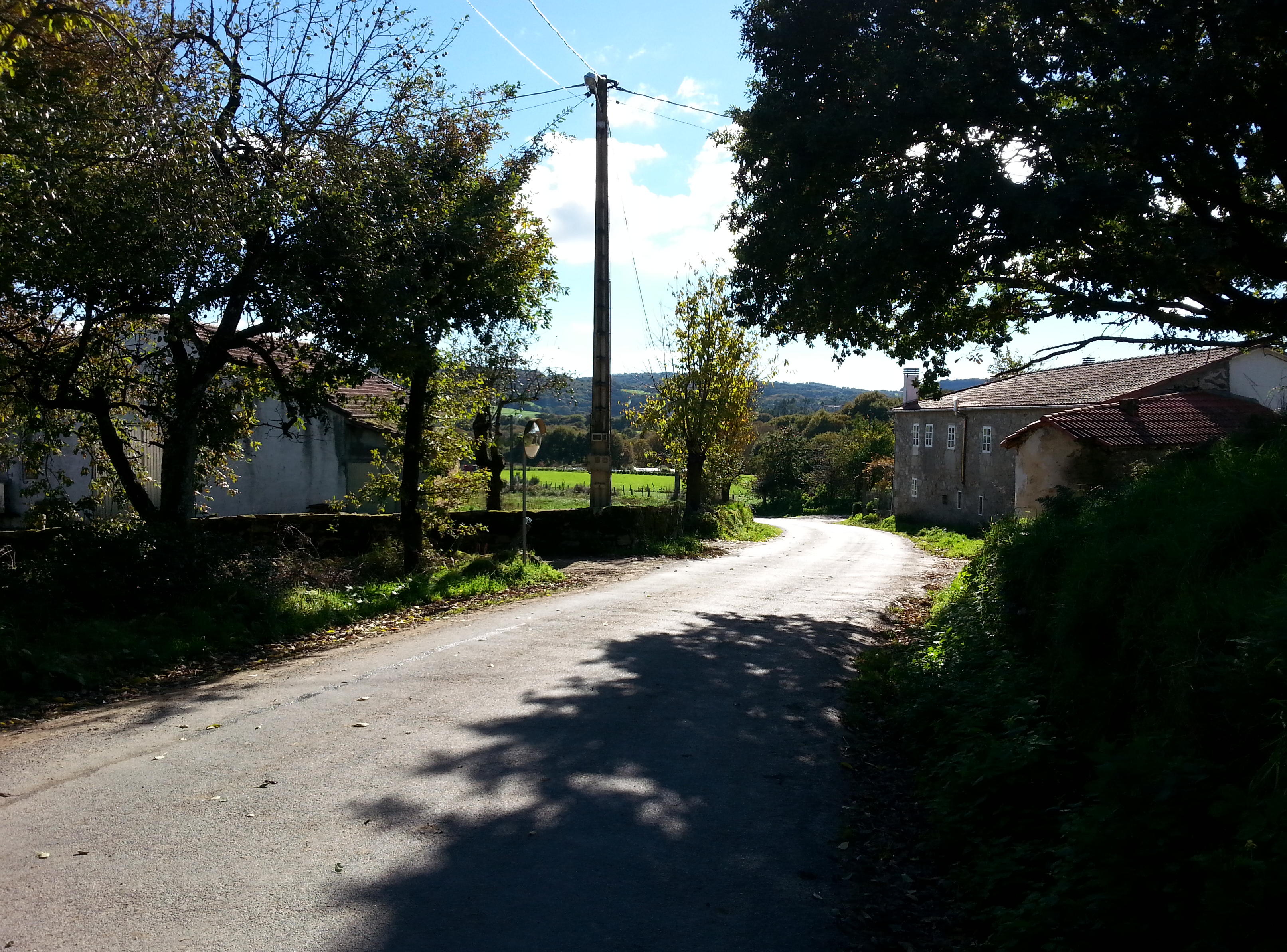 LU-P-1815 trough Axukfe from North